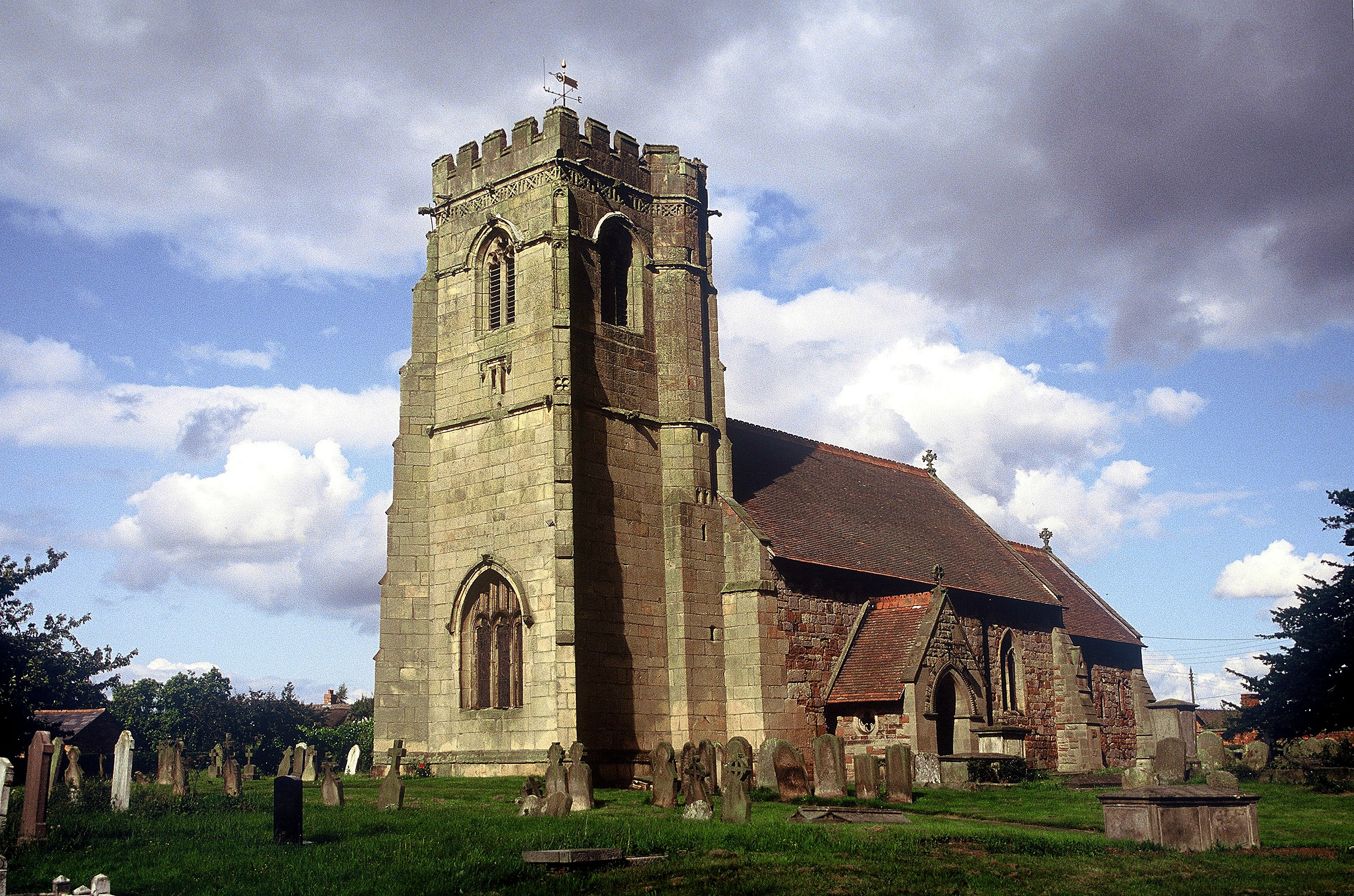 Church Of St Lucia Wikidata has entry Q17550458 with data related to this item.